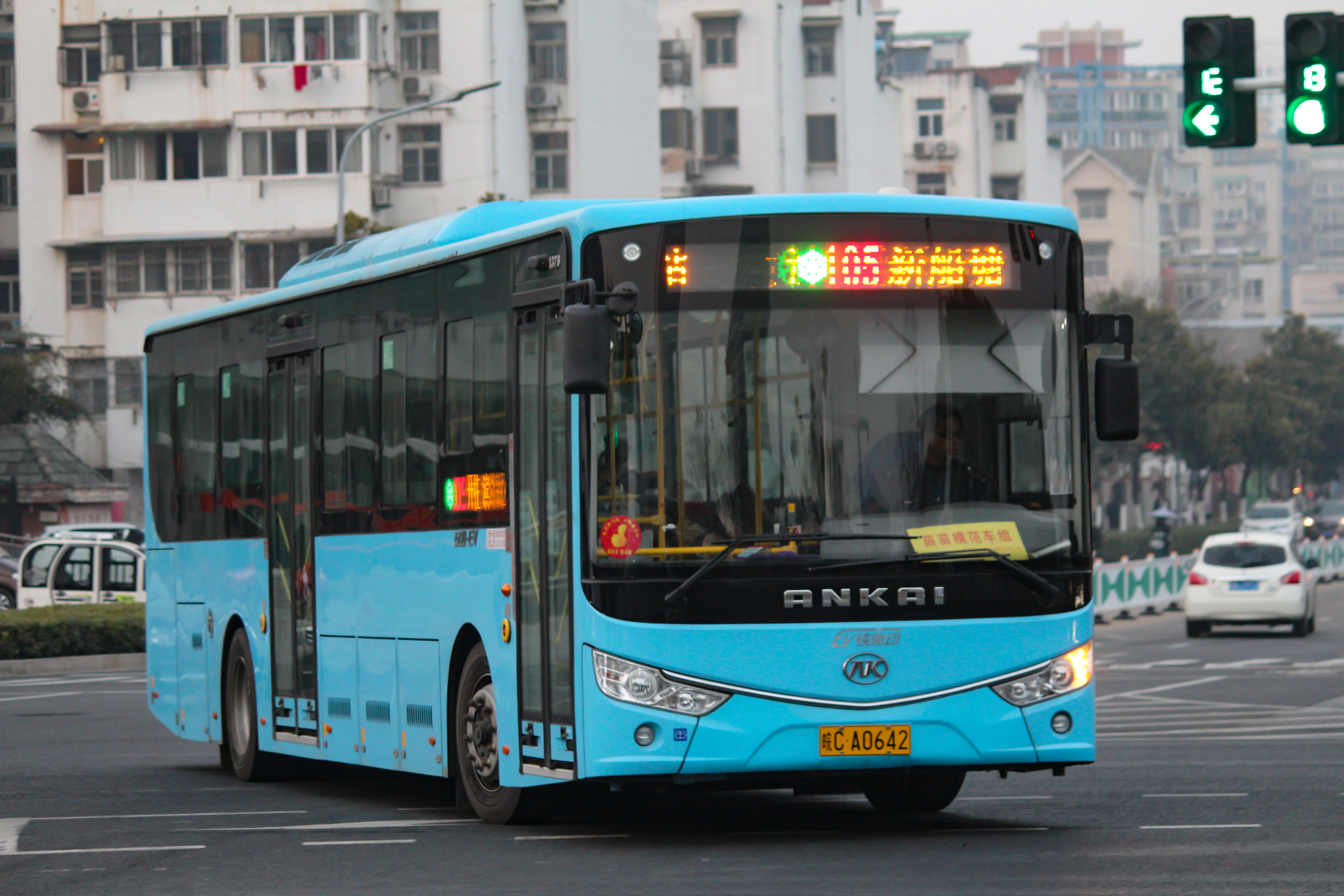 中文（中国大陆）: Bengbu Bus No.105 in City Government Sta.